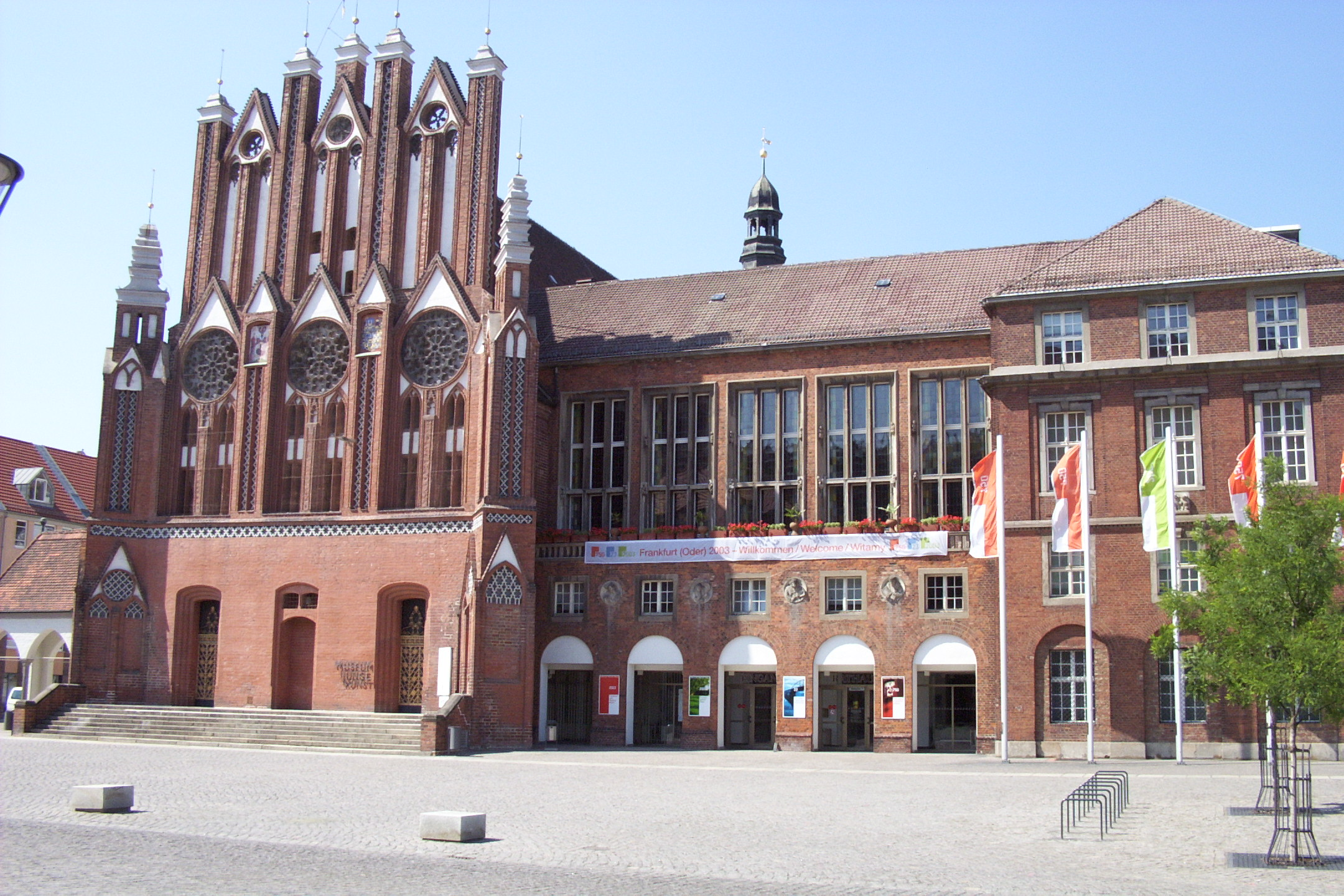 The Gothic town hall in Frankfurt (Oder). Taken by ProhibitOnions, 2003